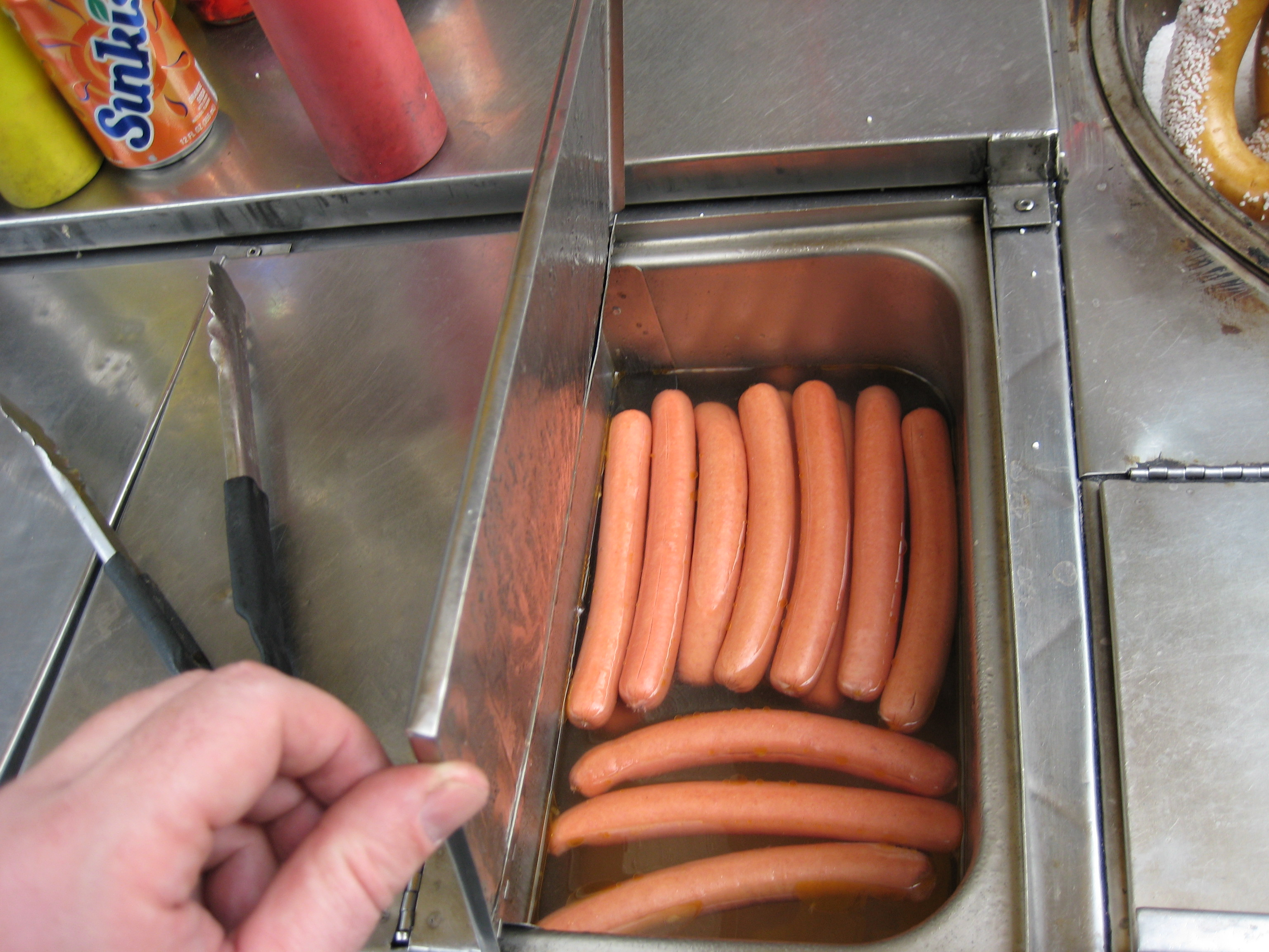 Hot dogs in heated water - NYC Hot dog cart - also known as "dirty water dogs"